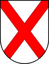 Coat of arms of the city of Novigrad, Croatia